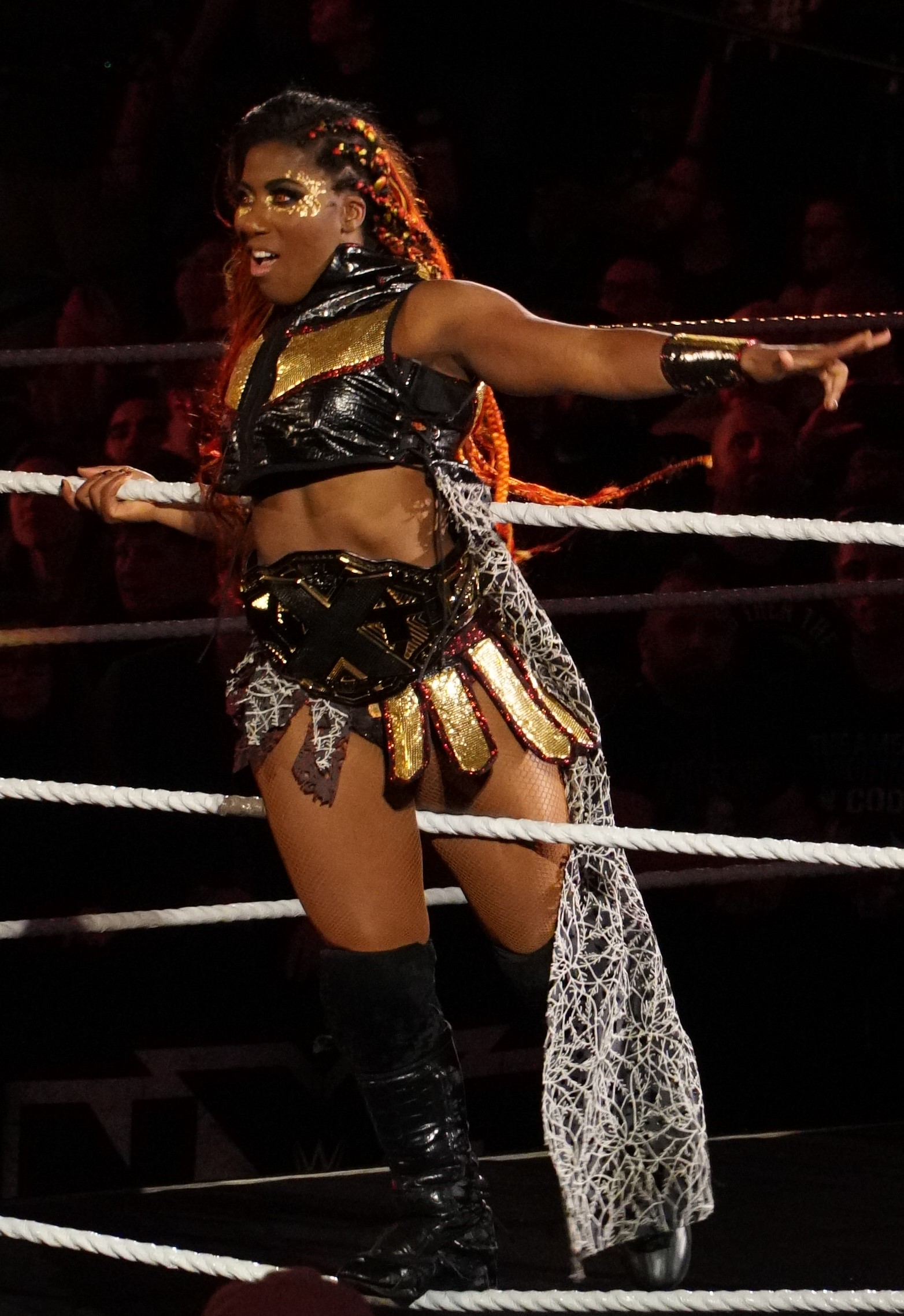 Ember Moon enters as the NXT Women's Champion at NXT TakeOver: New Orleans.